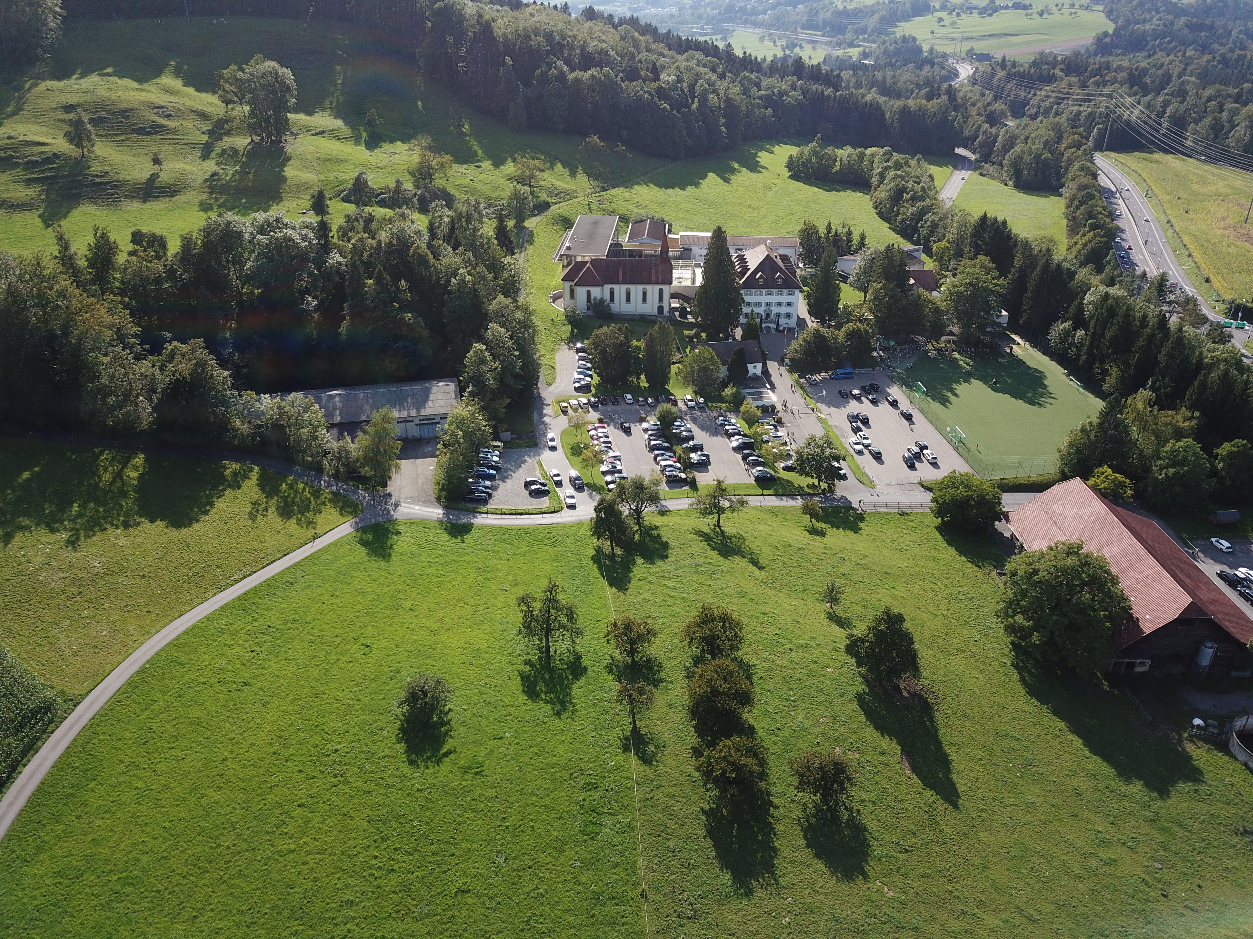 ISZL Zug Campus Baar, Switzerland